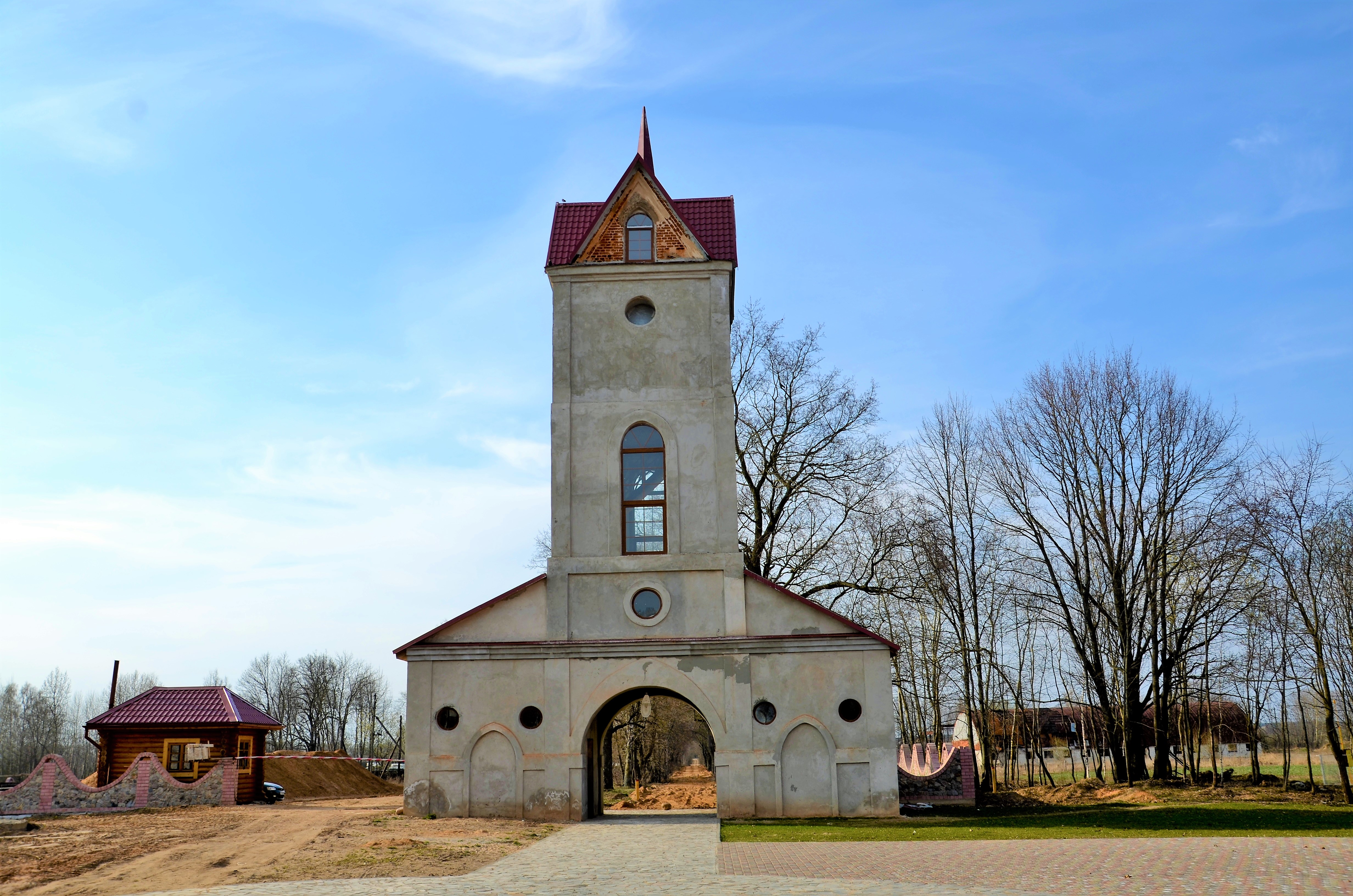 Gate of Palace of Hartings in Dukora, Pukhavichy district, Minsk province